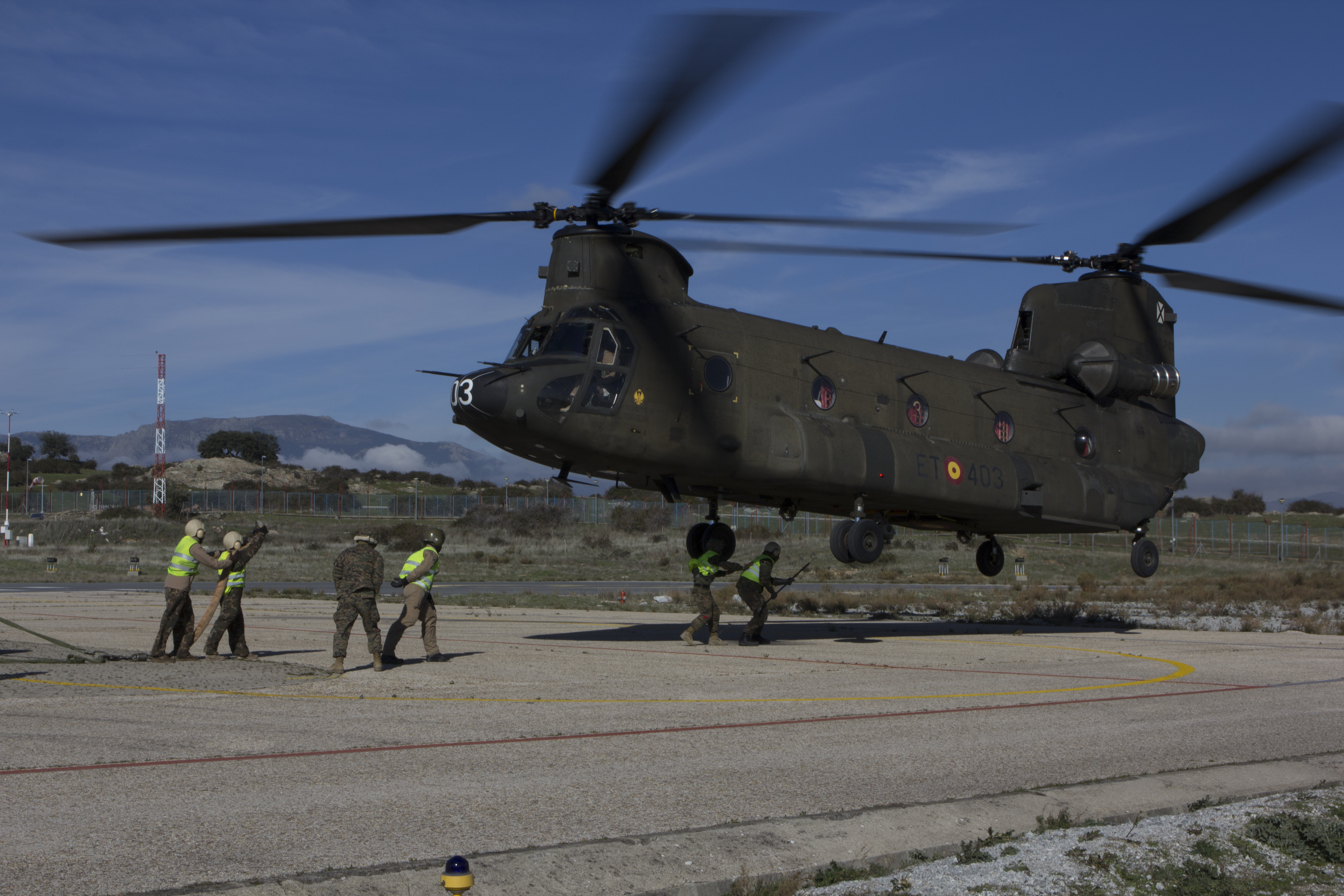 U.S. Marines with SPMAGTF Crisis Response - Africa and Spanish soldiers with Transport Helicopter Battalion 5, prepare to sling two water bladders to the bottom of the Spanish Army CH-47 Chinook, at Colmenar de Viejo, Spain, Nov. 18, 2014. The 4,300 pound water bladders can be used to transport clean water to support troops operating in a location without potable water or when conducting humanitarian assistance missions. The training enhanced mission readiness and help build relationships between the two militaries. (U.S. Marine Corps photo by Cpl Jeraco Jenkins/Released).